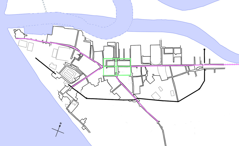 Schematic Plan of Ostia antica with the castrum and the precedent roads